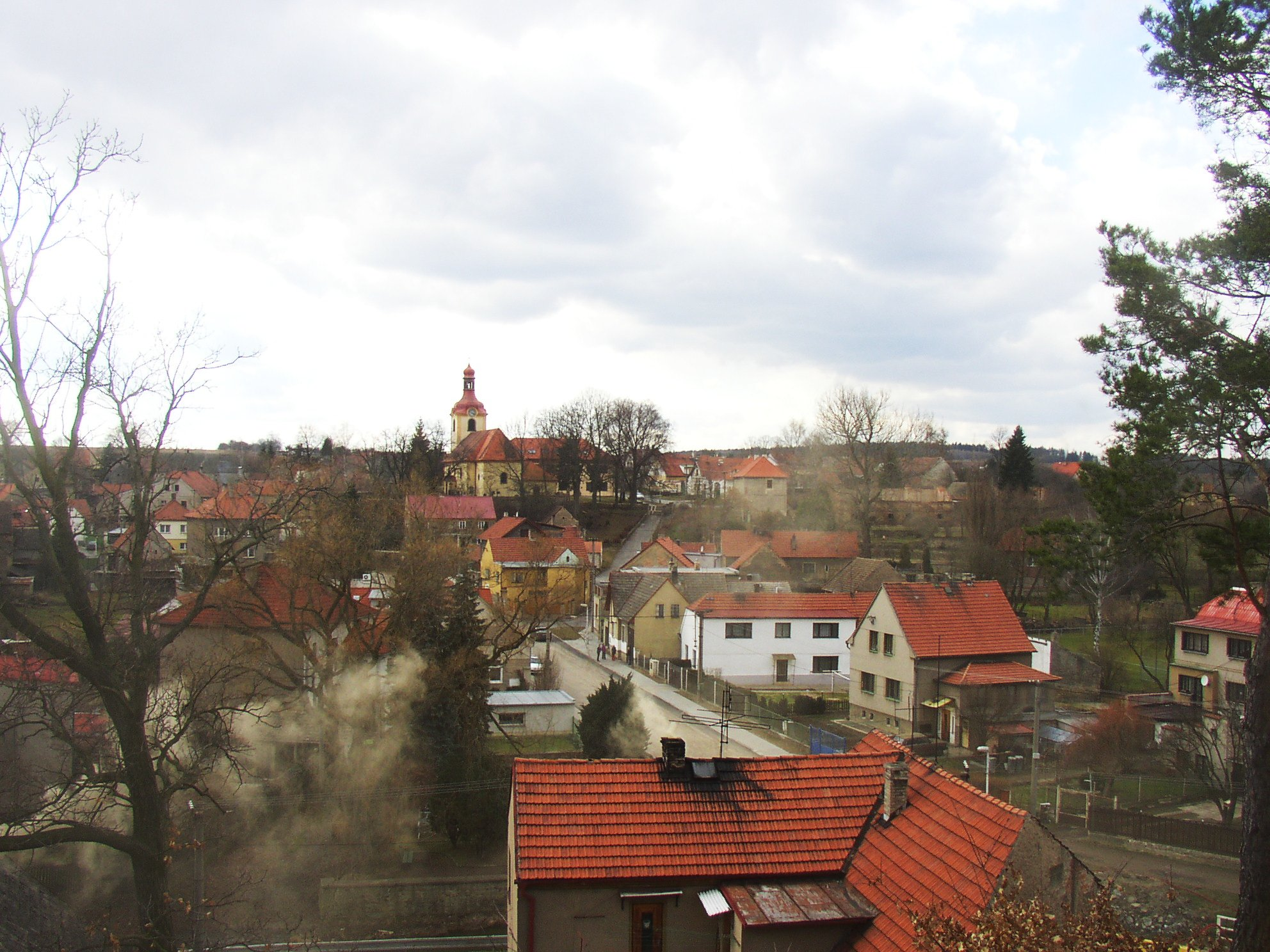 Družec, Kladno District, Czech Republic. A view from local Calvary towards Assumption church in centre of the village.